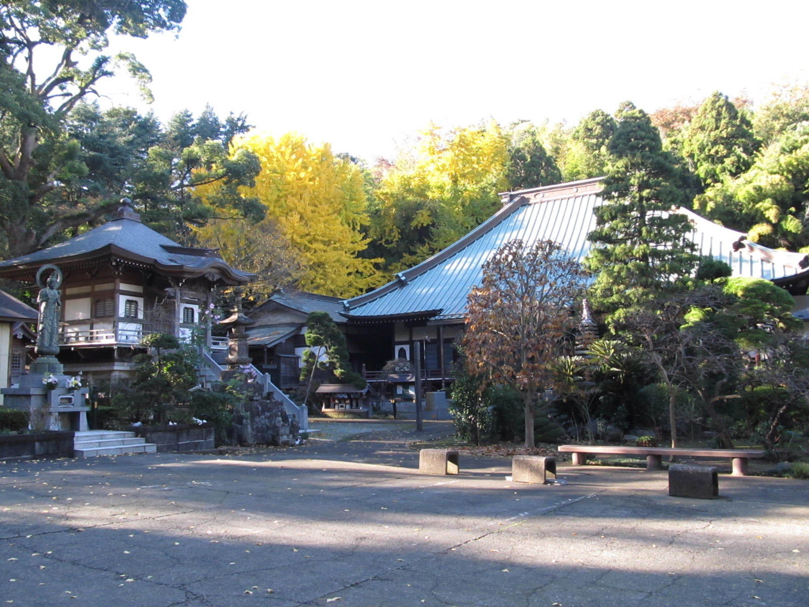 Sōken'in in Fujisawa City, Kanagawa Prefecture, Japan